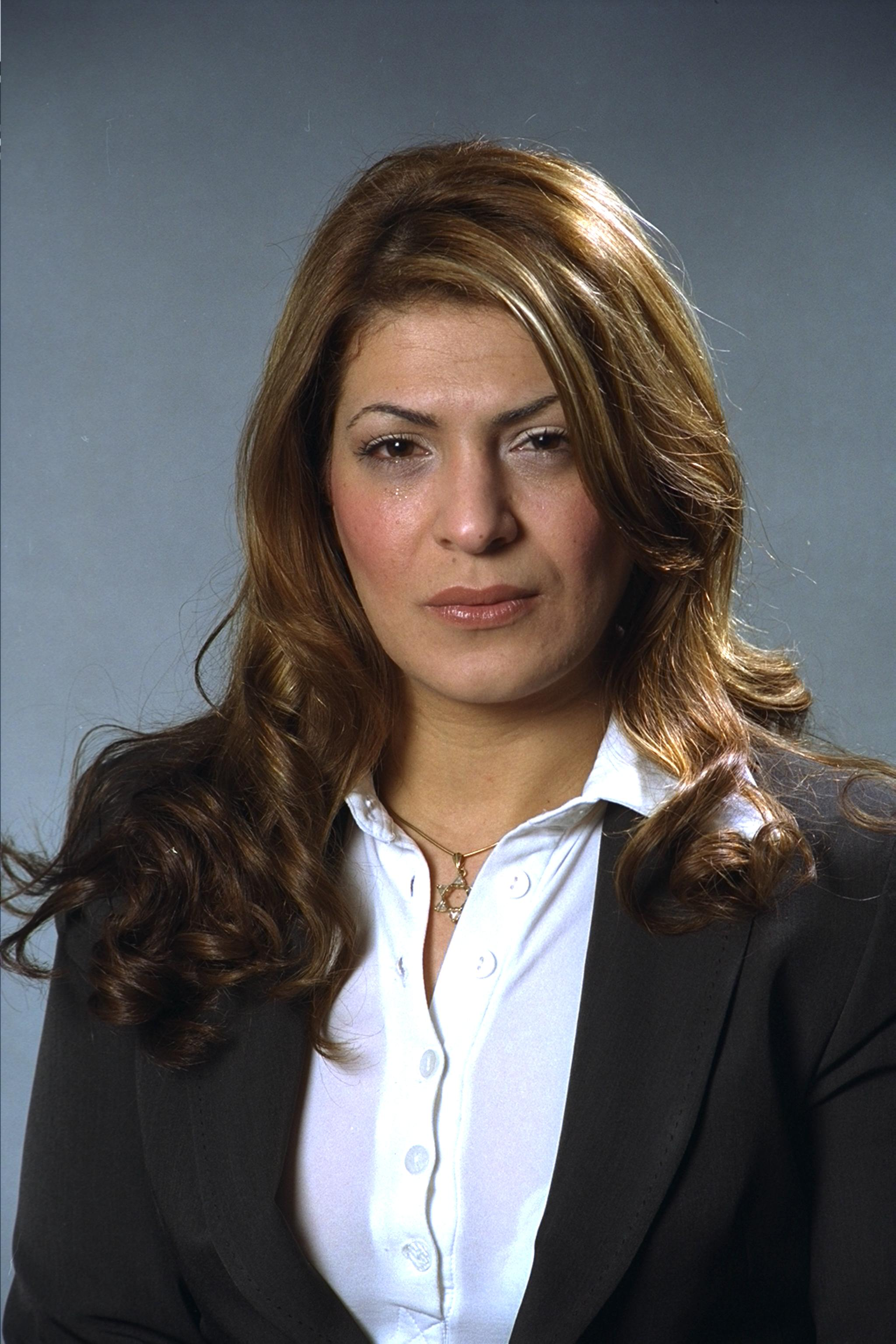 A portrait of "Likud" mk Inbal Gavriely..